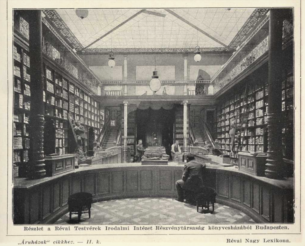 House of Books of Révai Testvérek Irodalmi Intézet (Budapest, 1910)